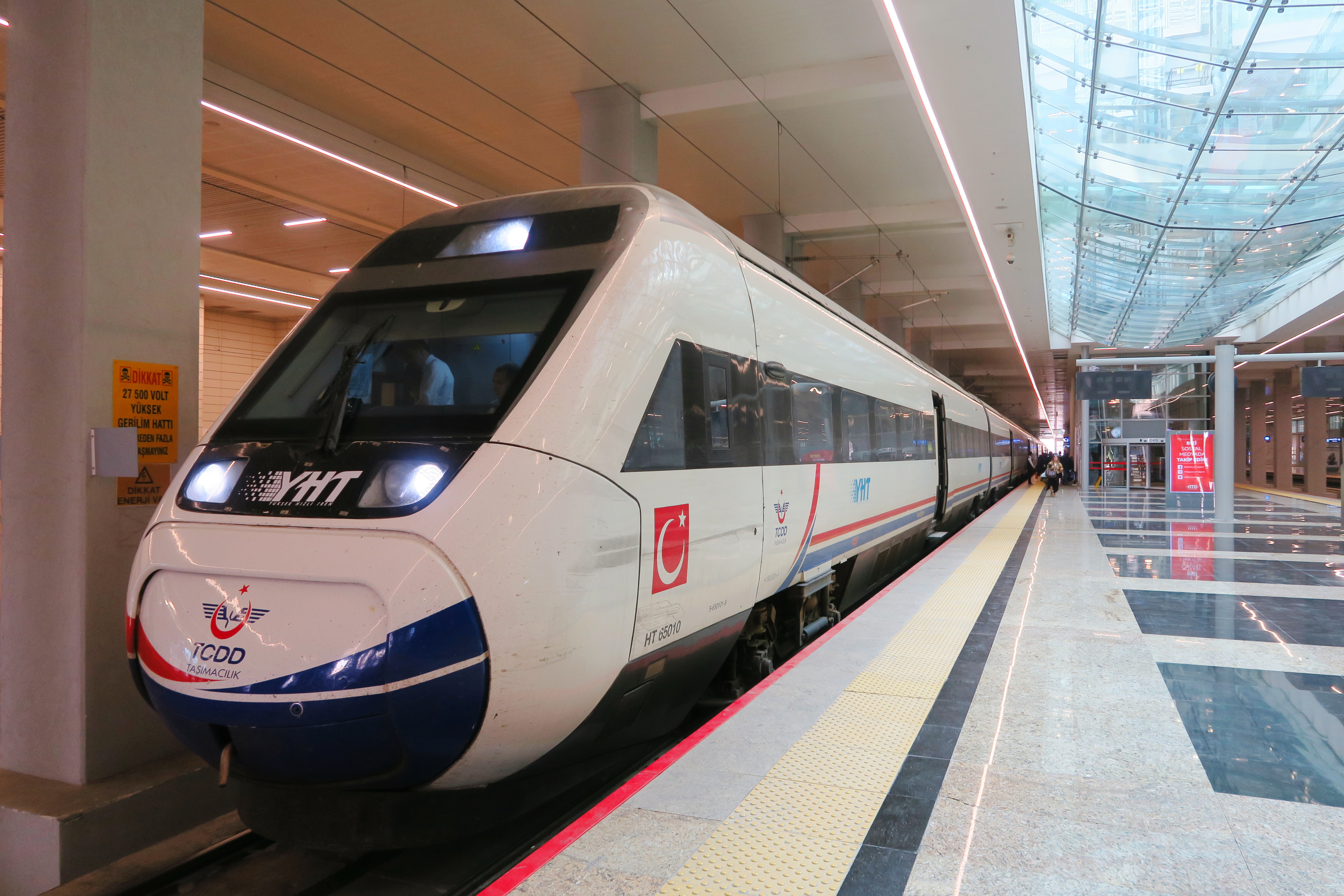 A TCDD Taşımacılık HT65000 high-speed trainset awaiting departure at Ankara Tren Gari to Istanbul Pendik on a YHT service